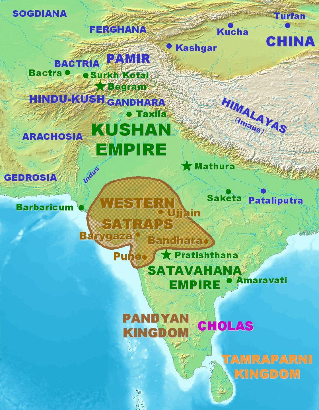 Territorial extent of the Western Kshatrapas.